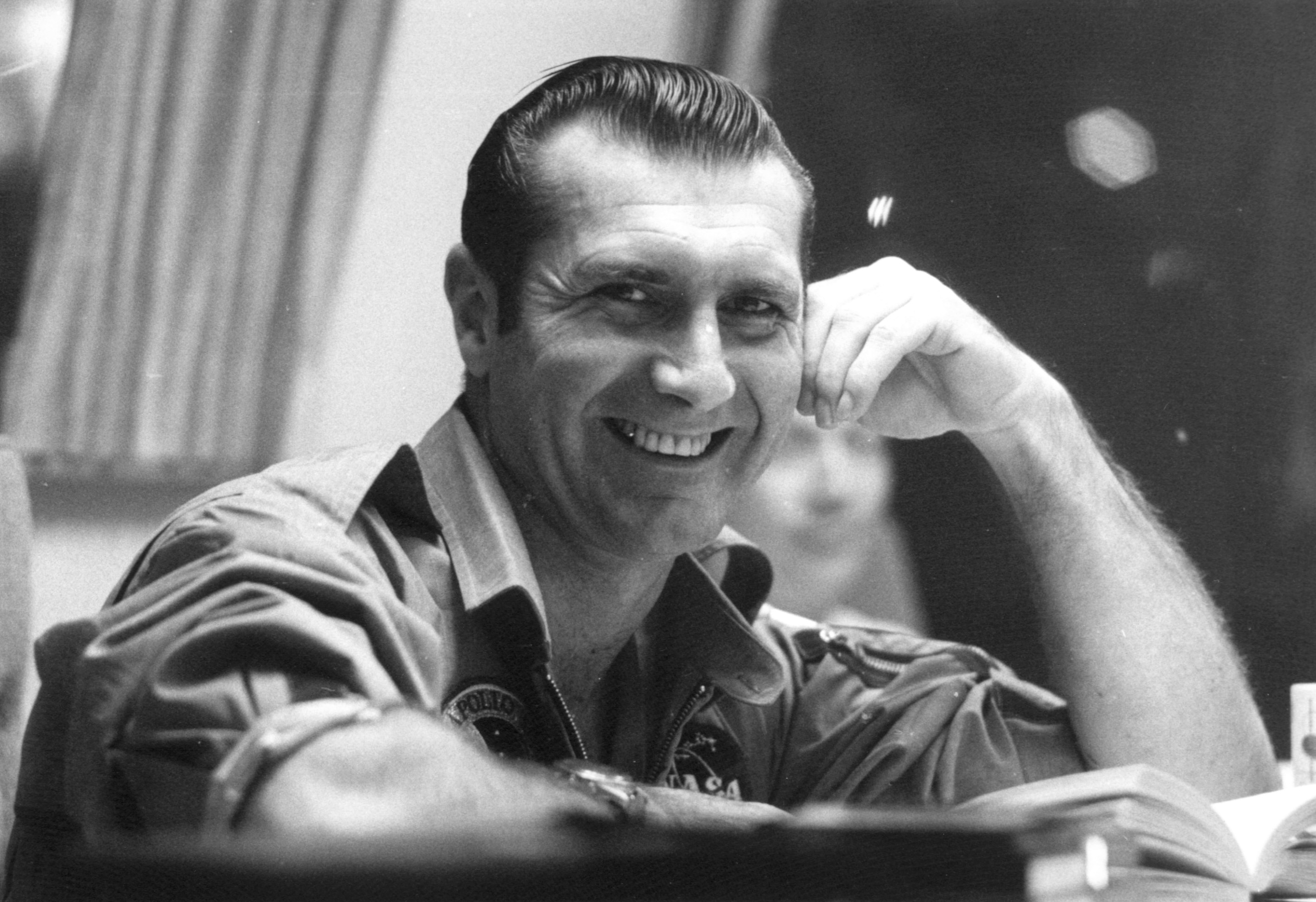 Dick Gordon during a debriefing in the quarantine van aboard the Hornet. 26 November 1969.